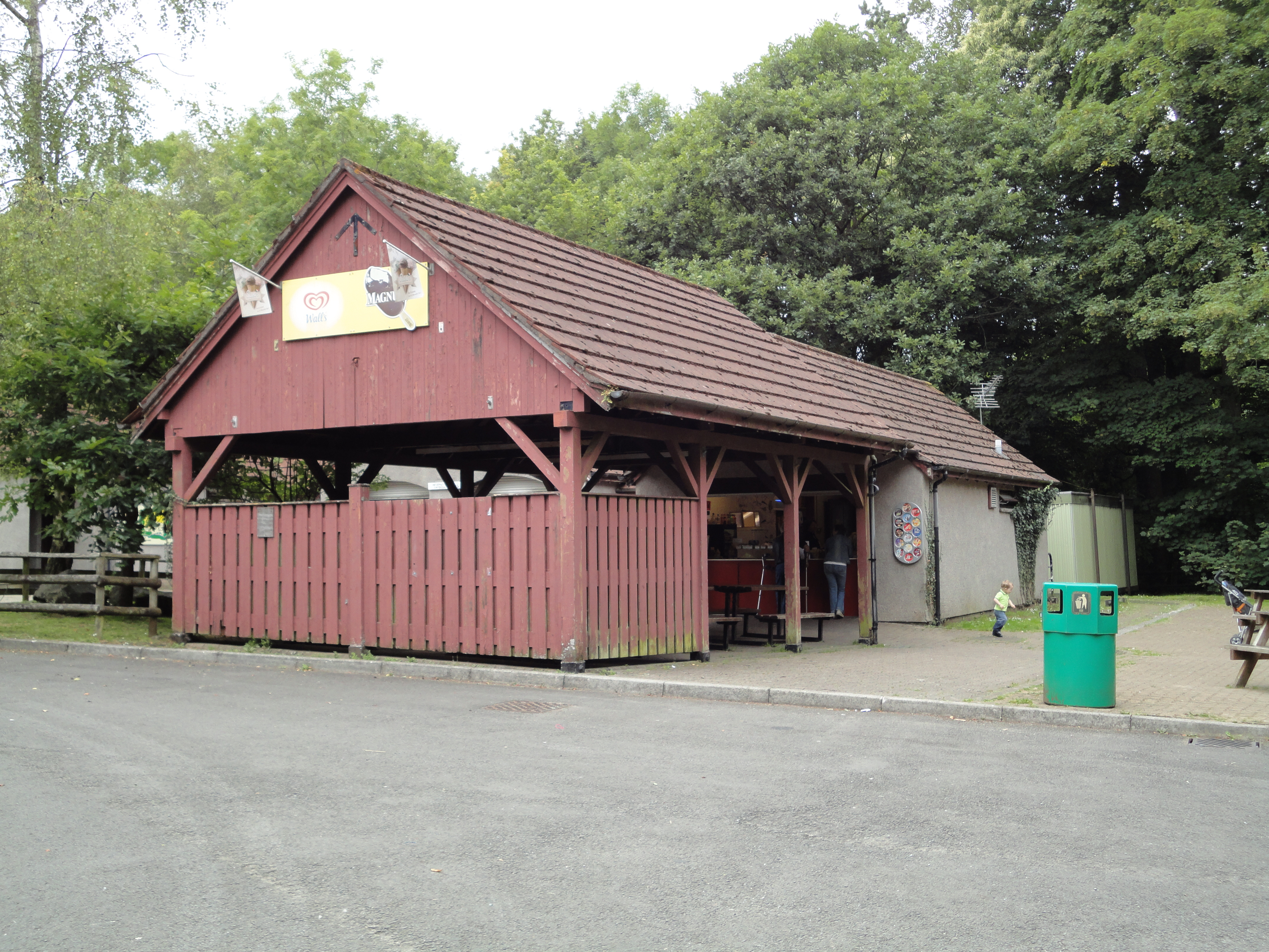 Bryngarw Country Park, Cafe 2011